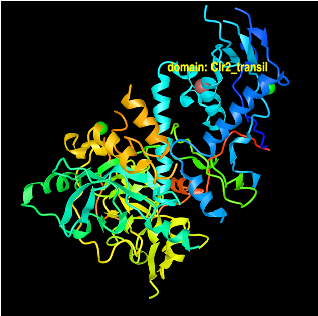 Structural analog of C4orf51, generated by I-TASSER. Conserved domain Clr1_transil is labeled in yellow.